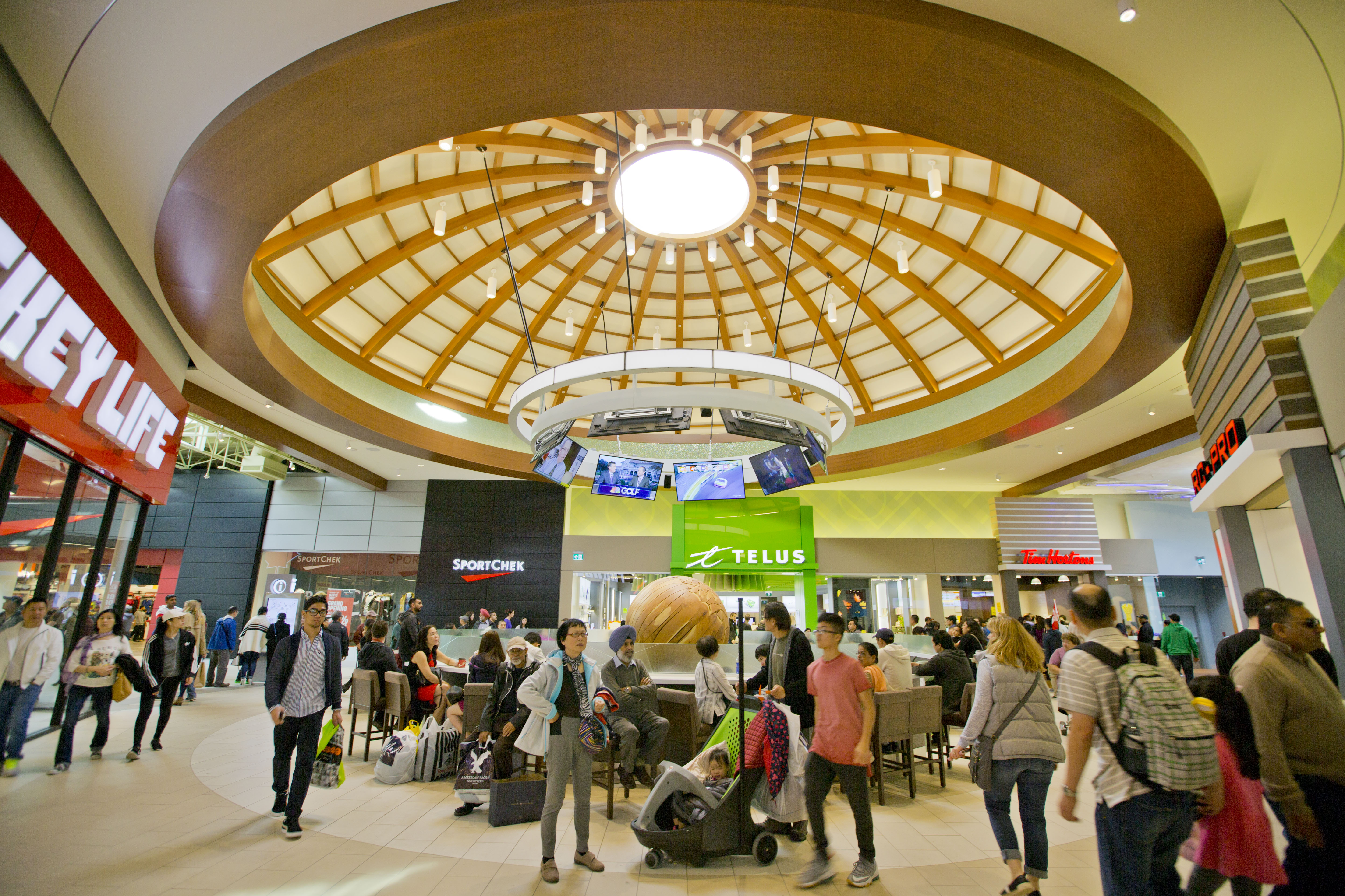 Tsawwassen Mills Outlet Shopping Mall